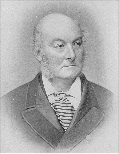 Photo of Mr. Frederick Gye taken from the work shown.